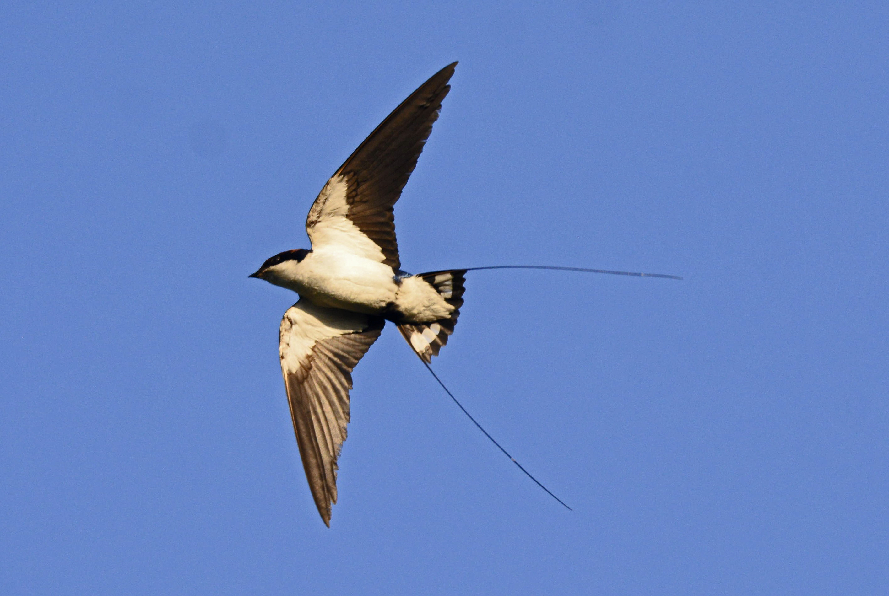 Wire-tailed Swallow Hirundo smithii photo in flight showing the identification marks.